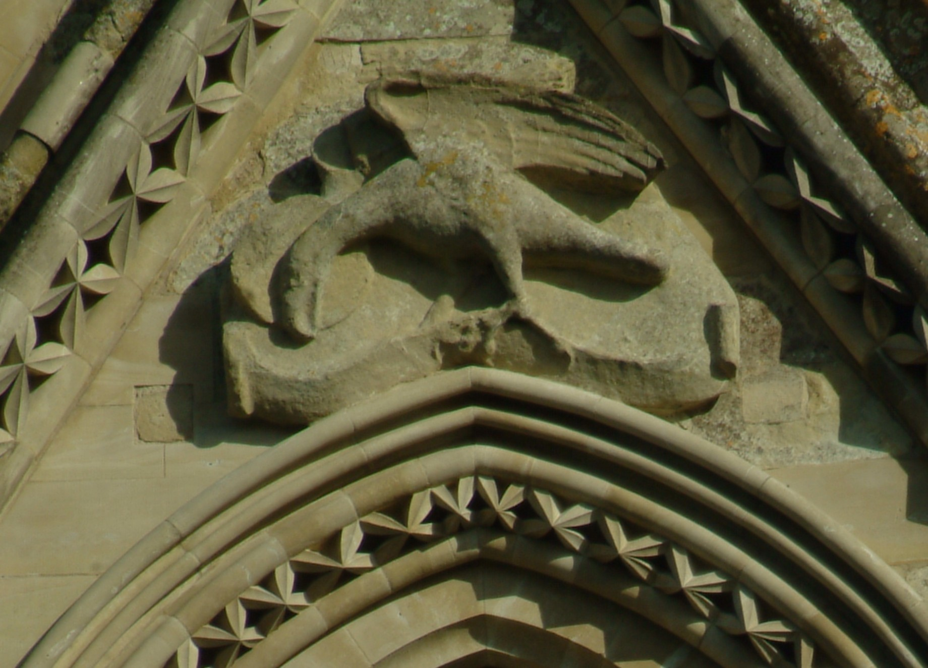 The eagle of St John the Evangelist on the West Front of Salisbury Cathedral